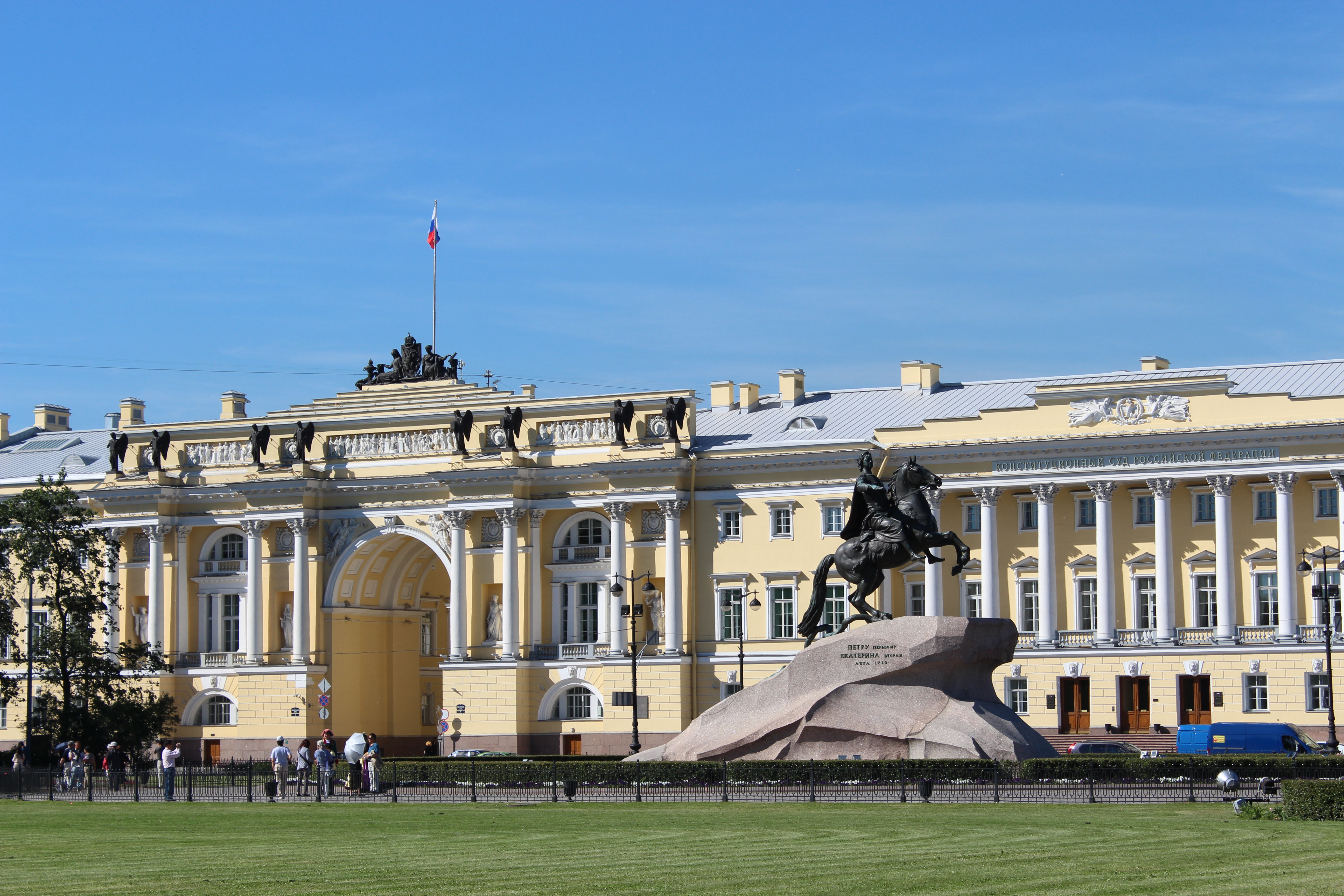 The Admiralty Embankment of Neva River in Saint Petersburg.